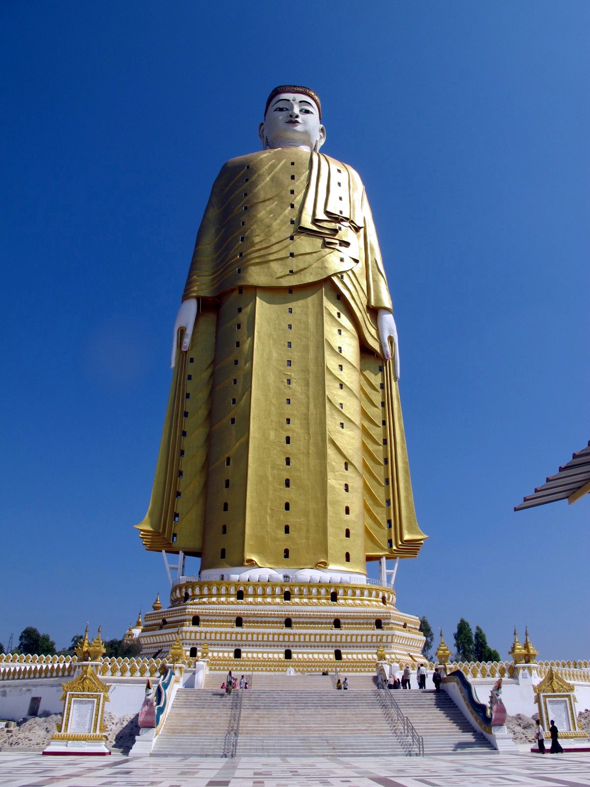 Monywa Buddah, Myanmar